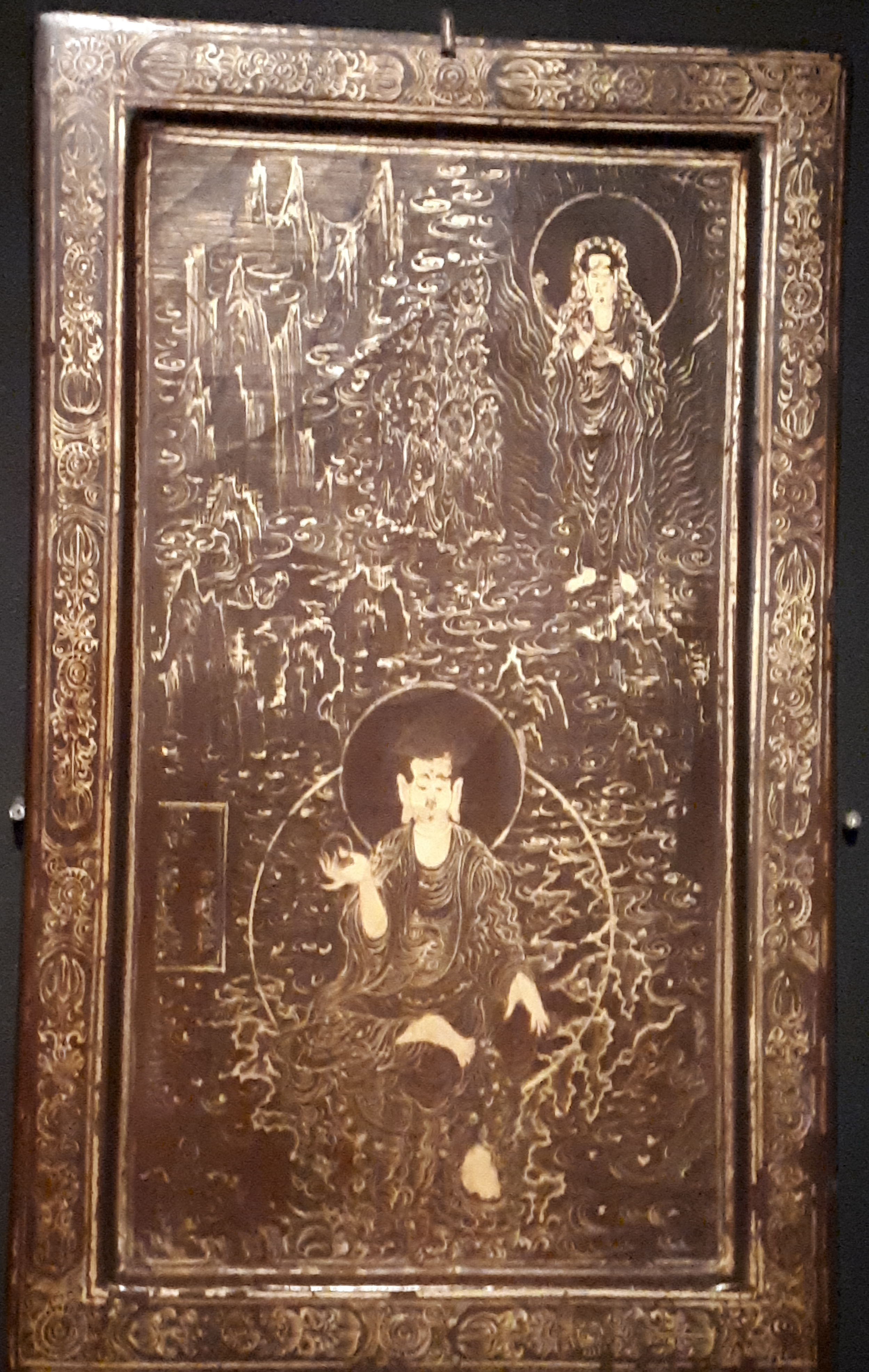 Treasure No. 1887 of South Korea : Dharmodgata Bodhisattva, painted by Buddhist painter Noh Young in 1307 The theme is that Taejo of Goryeo met Dharmodgata Bodhisattva.